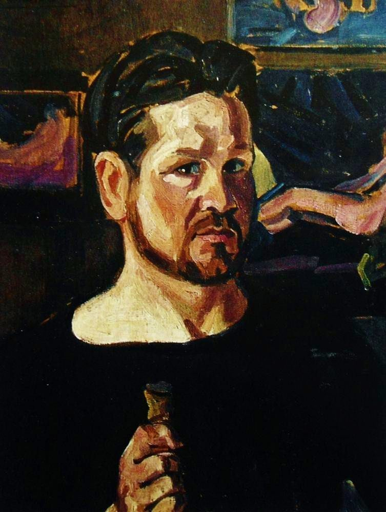 Adrien Bas, self-portrait (date unknown)